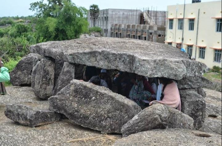 People under the Dolmen, Who are visiting the historical construction near Amadalavalasa in India.